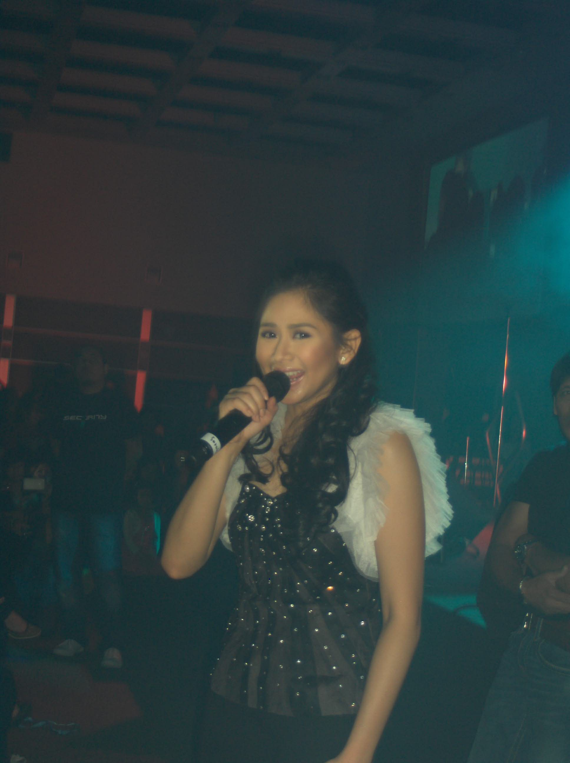 A shot of Sarah Geronimo taken during her London concert.